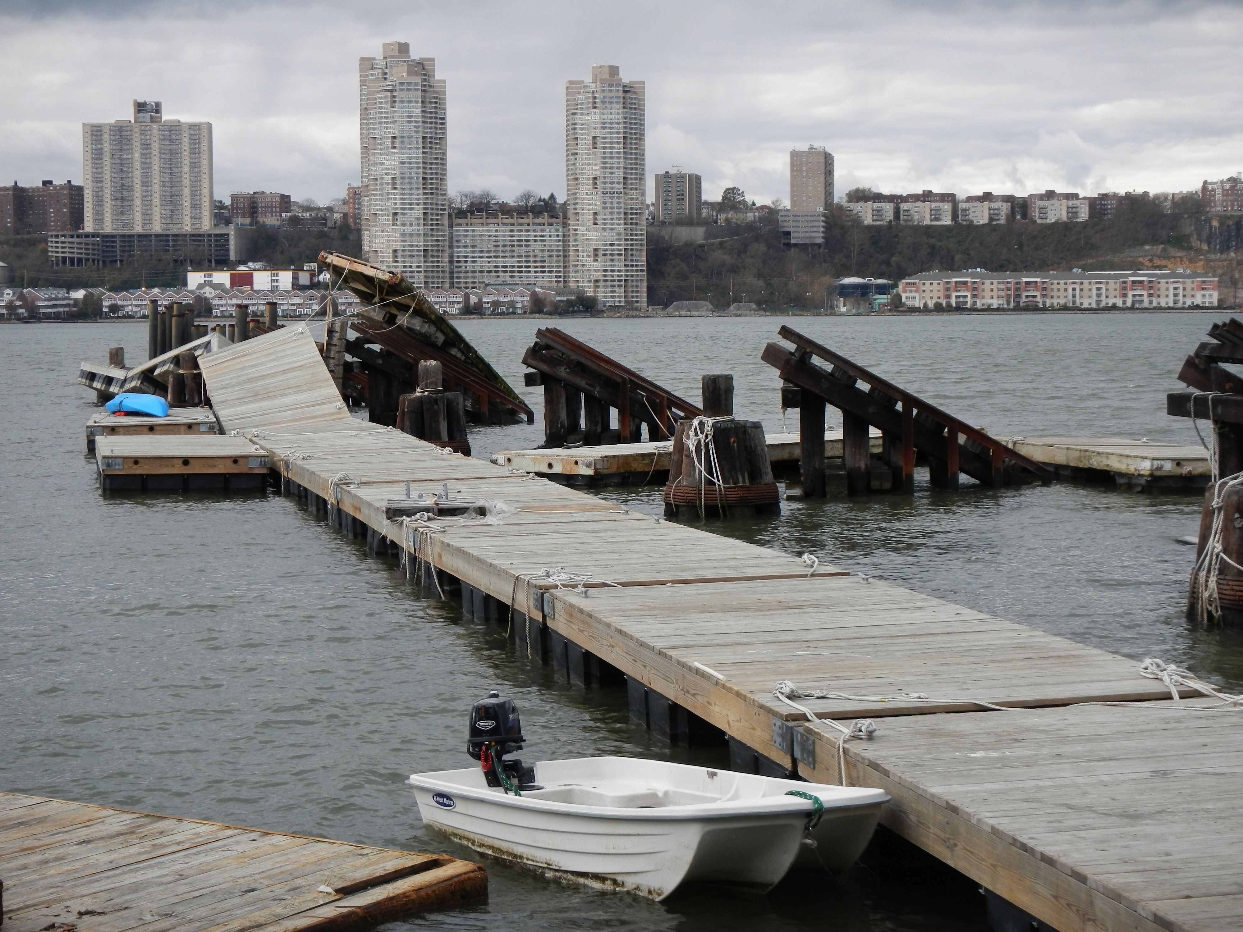 Looking west at damage to northern docks.